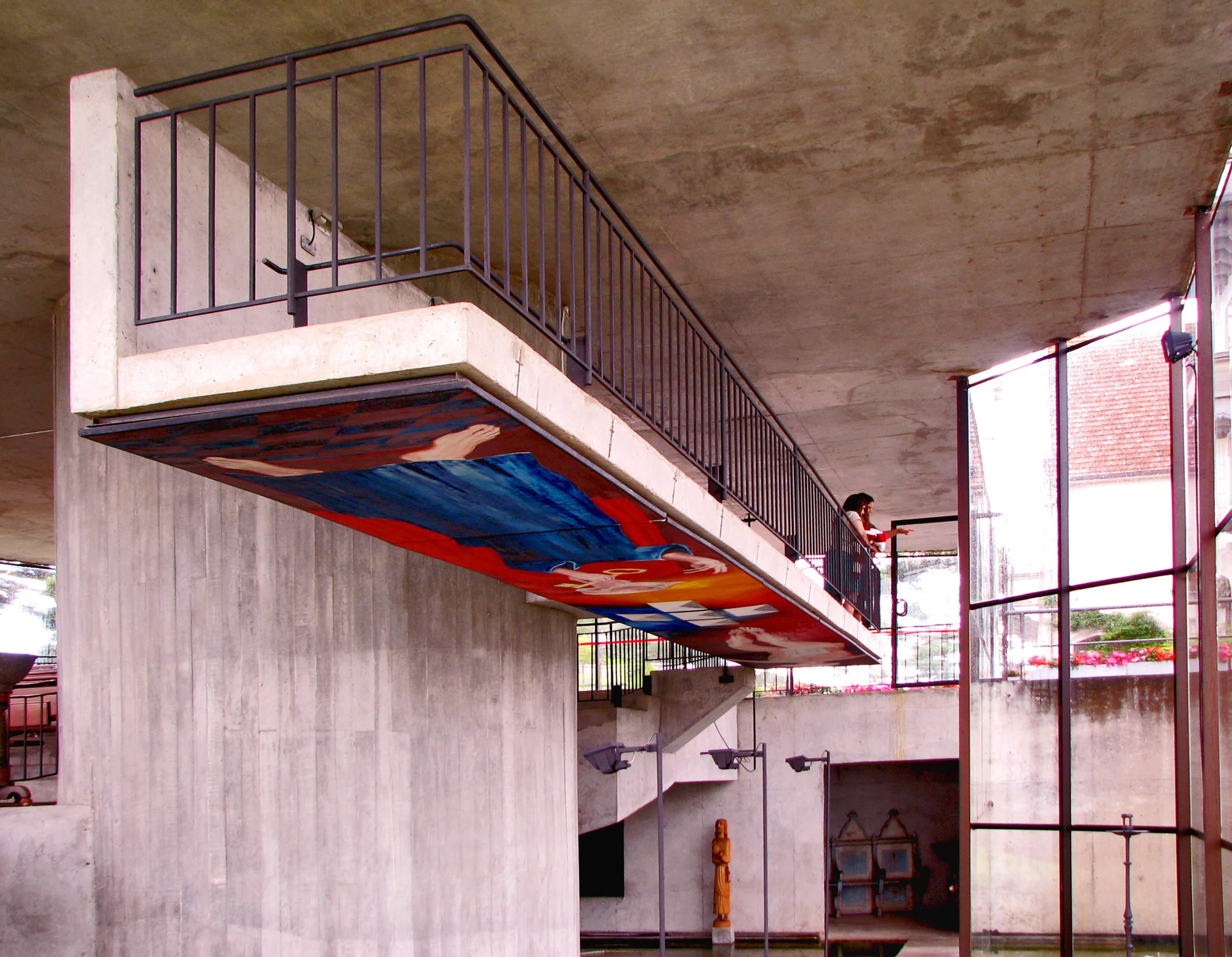 Chapel designed by Pritzker-winning brazillian architect Paulo Mendes da Rocha. The building is close to Boa Vista Palace, São Paulo State Governor's official winter residence.